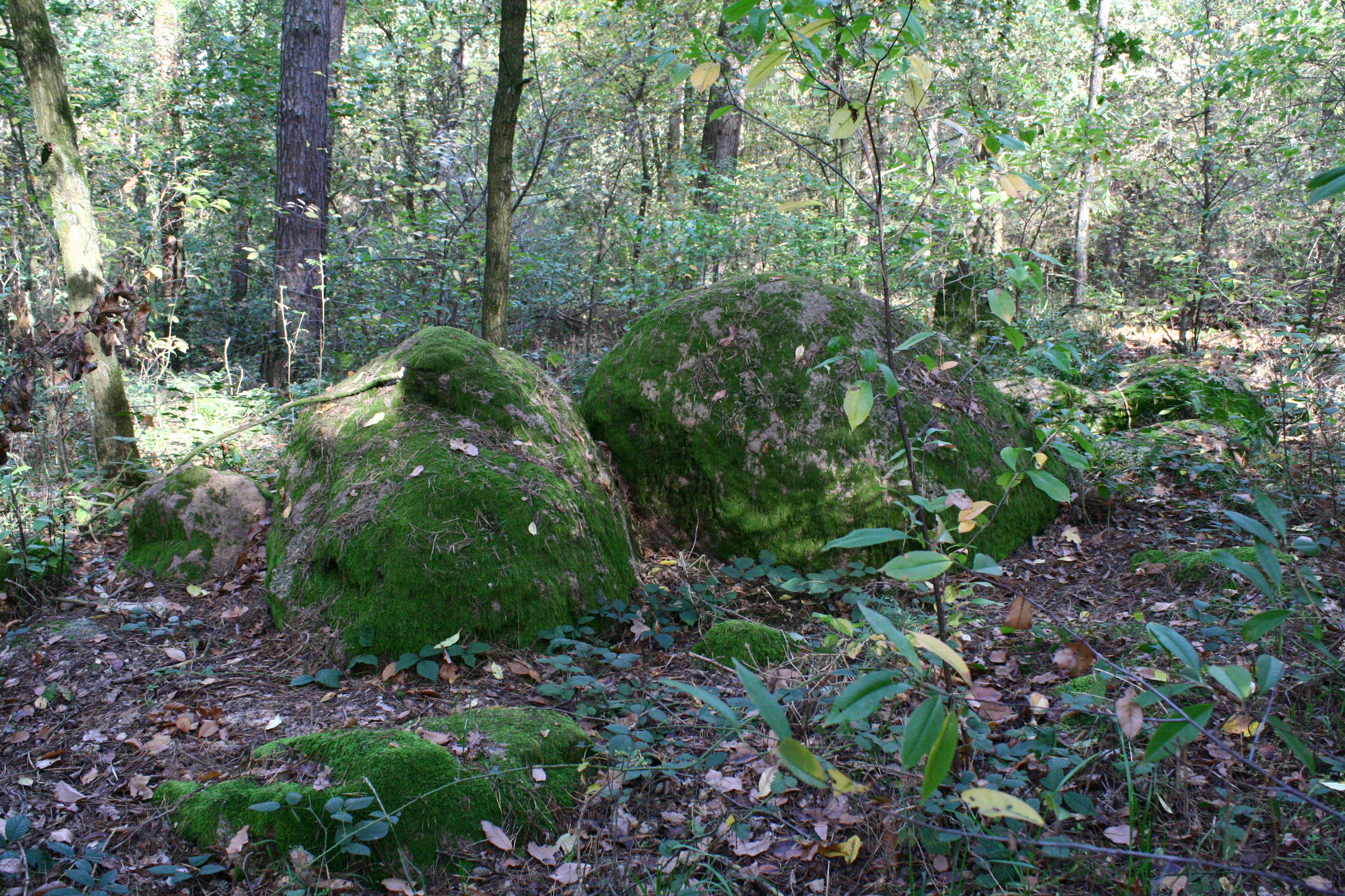 Megalithic tomb Haldensleben II 27